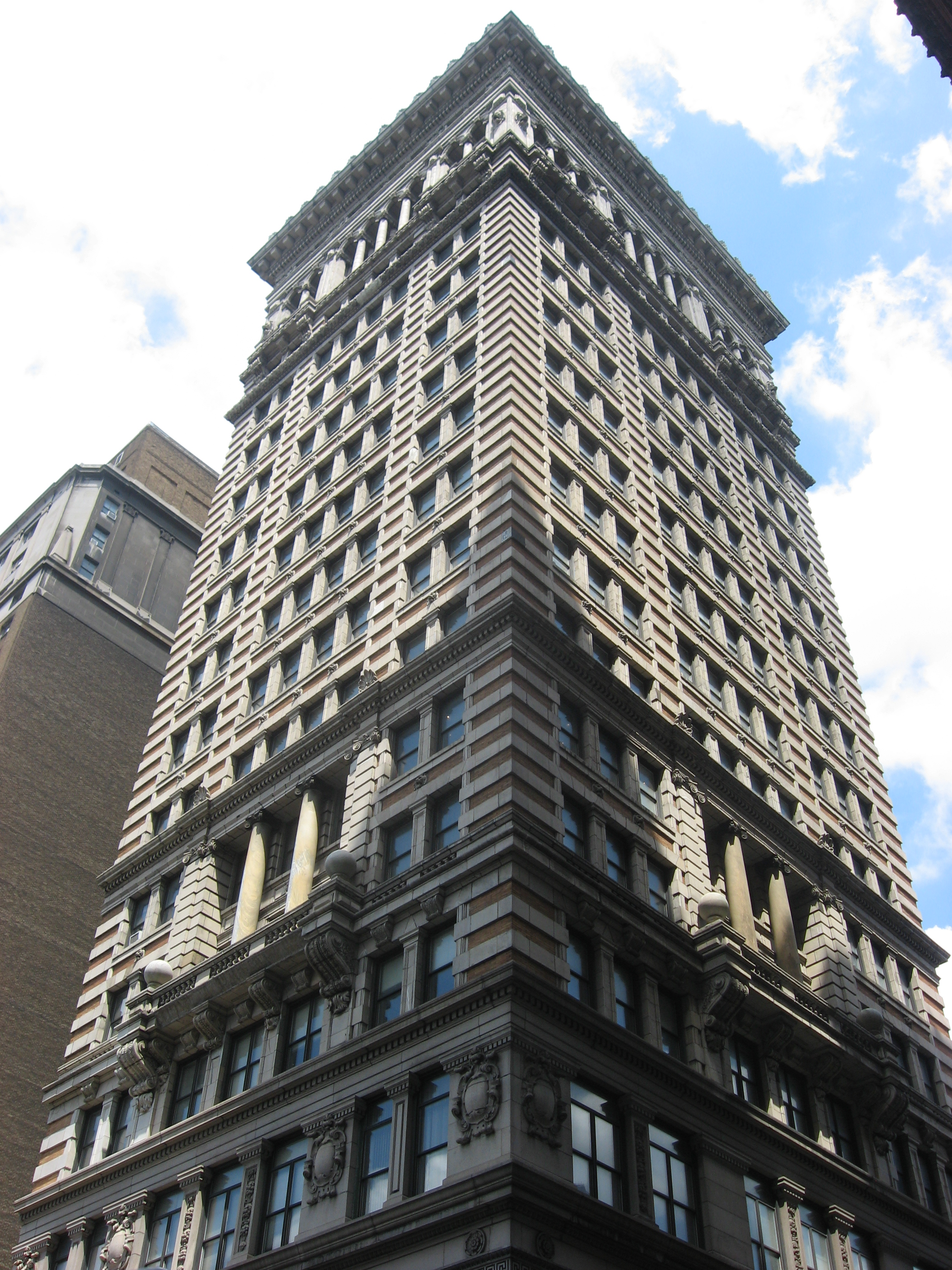 The Arrott Building, located at the intersection of Fourth Avenue and Wood Street in the heart of the financial district of downtown Pittsburgh, Pennsylvania, United States. This skyscraper — Pittsburgh's oldest — and several surrounding financial buildings are part of the Fourth Avenue Historic District, which is listed on the National Register of Historic Places. The Arrott Building was built in 1902 and designed by architect Frederick J. Osterling. It is on the List of Pittsburgh Landmarks recognized by the Pittsburgh History and Landmarks Foundation.